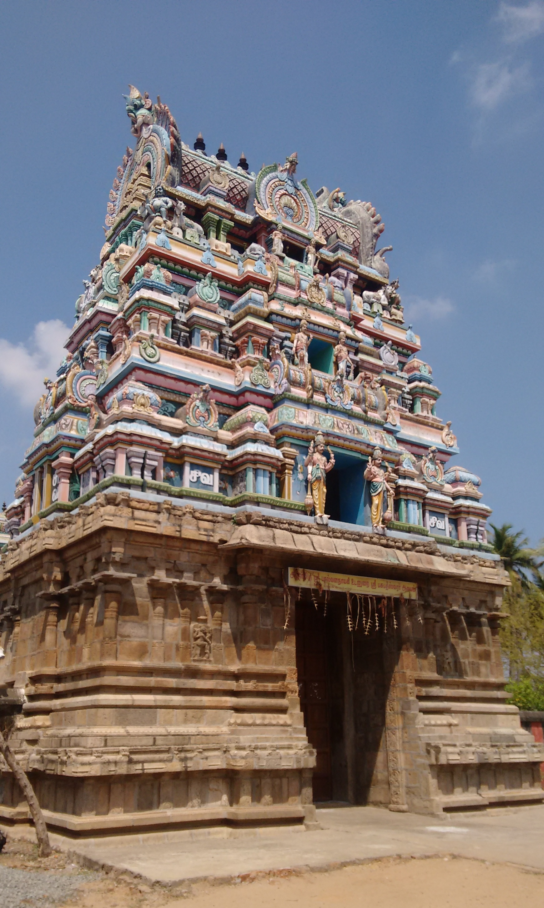 Pasupathikovil temple at Pasupathiswararkovil